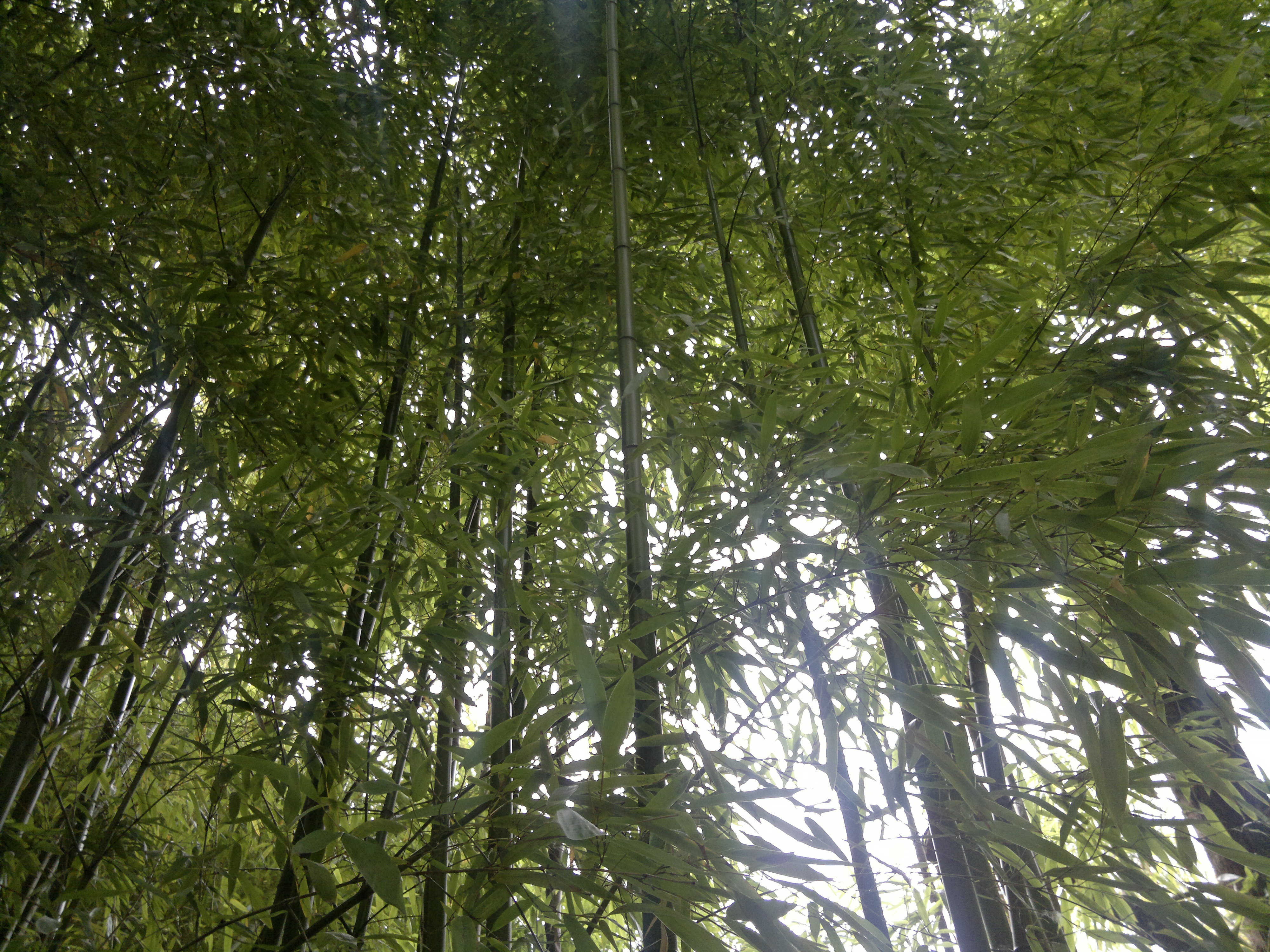 bamboo bambou bambuseae phyllostachys VAN_DEN_HENDE_ALAIN CC-BY-SA-4_0 _210520142048 bamboo stalk green foliage yellow stems garden ornamental plant green forest